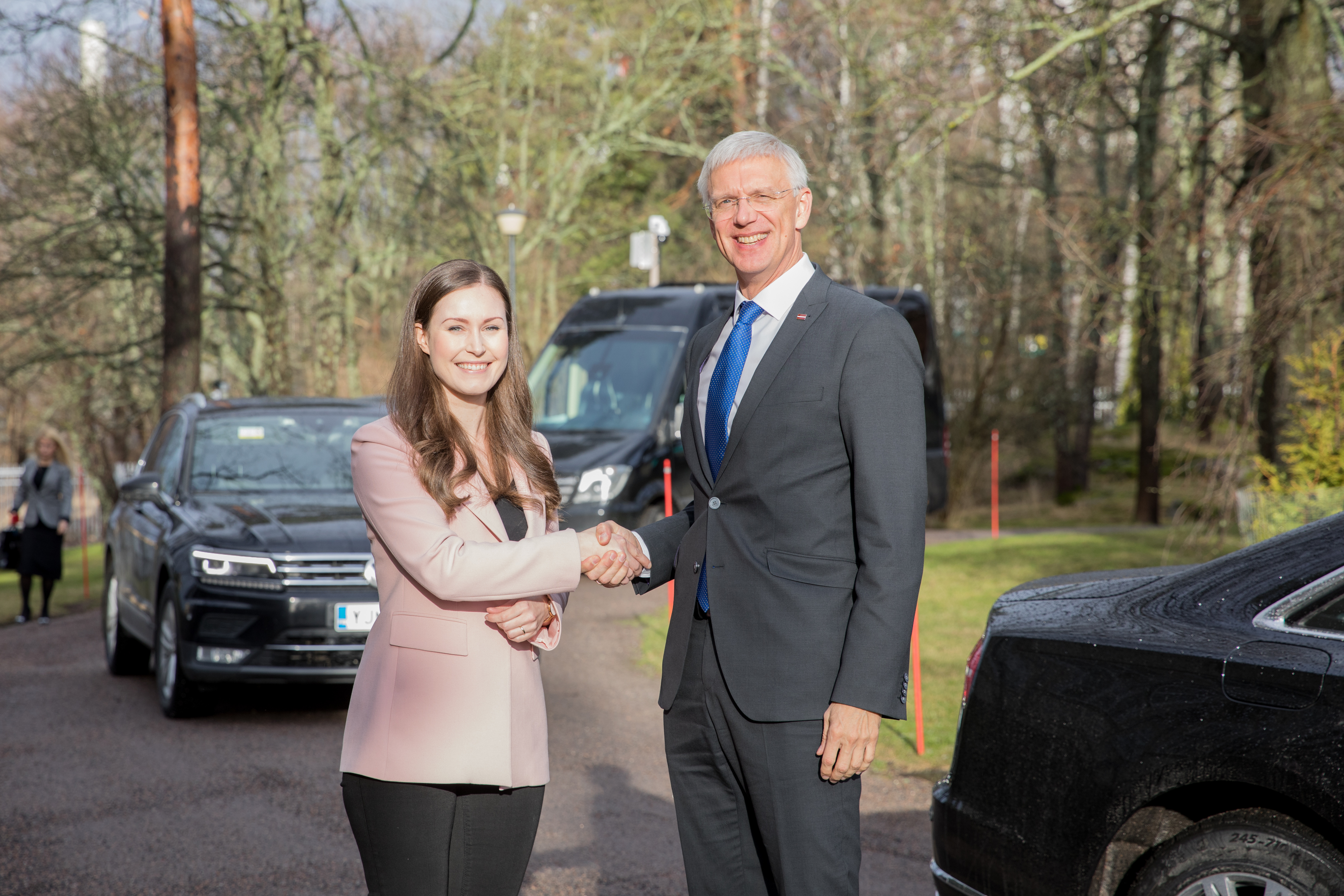 © Aapo Riihimäki | valtioneuvoston kanslia